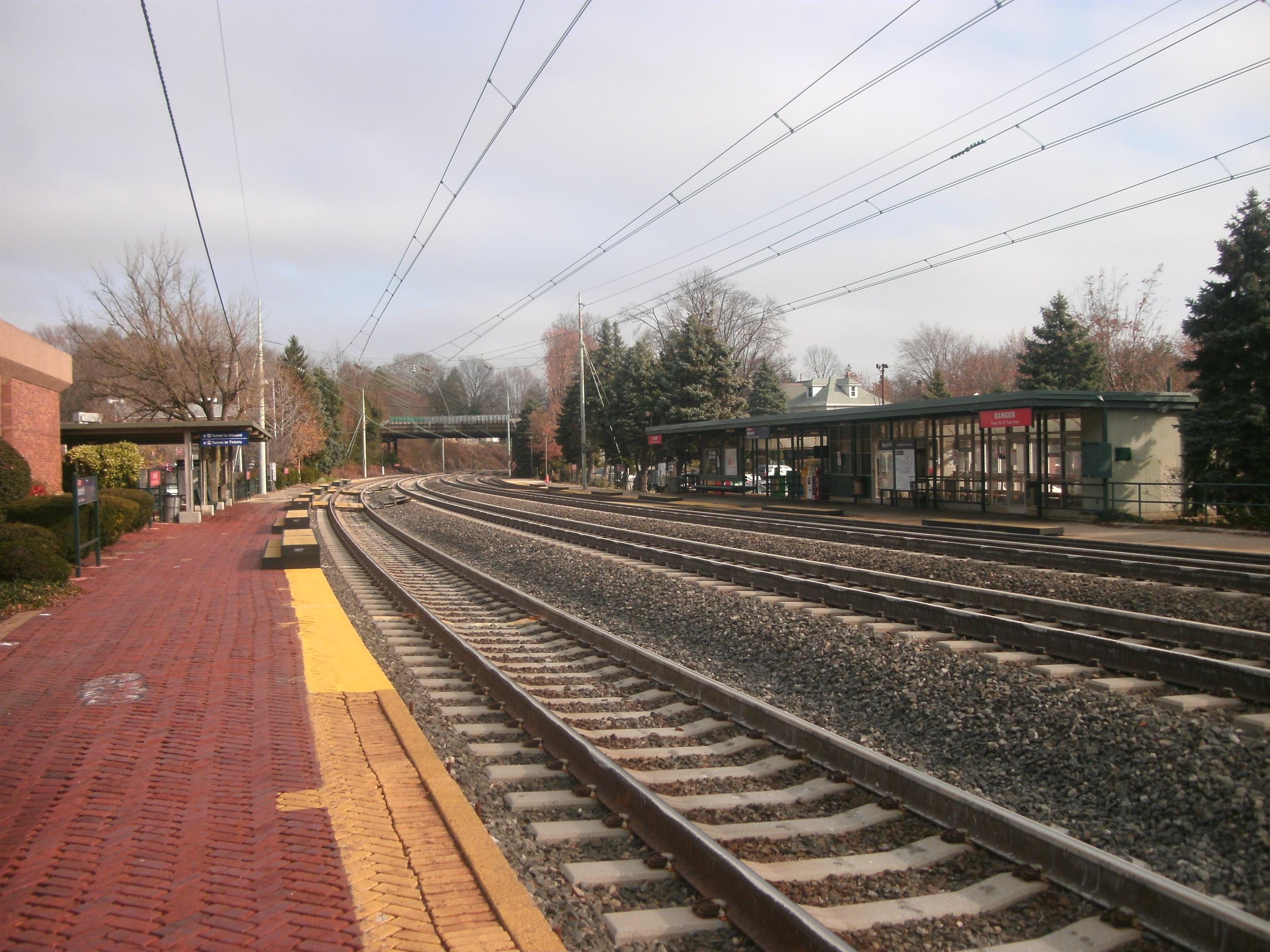 The Narberth SEPTA Regional Rail station in the Narberth section of Lower Merion Township, Pennsylvania.